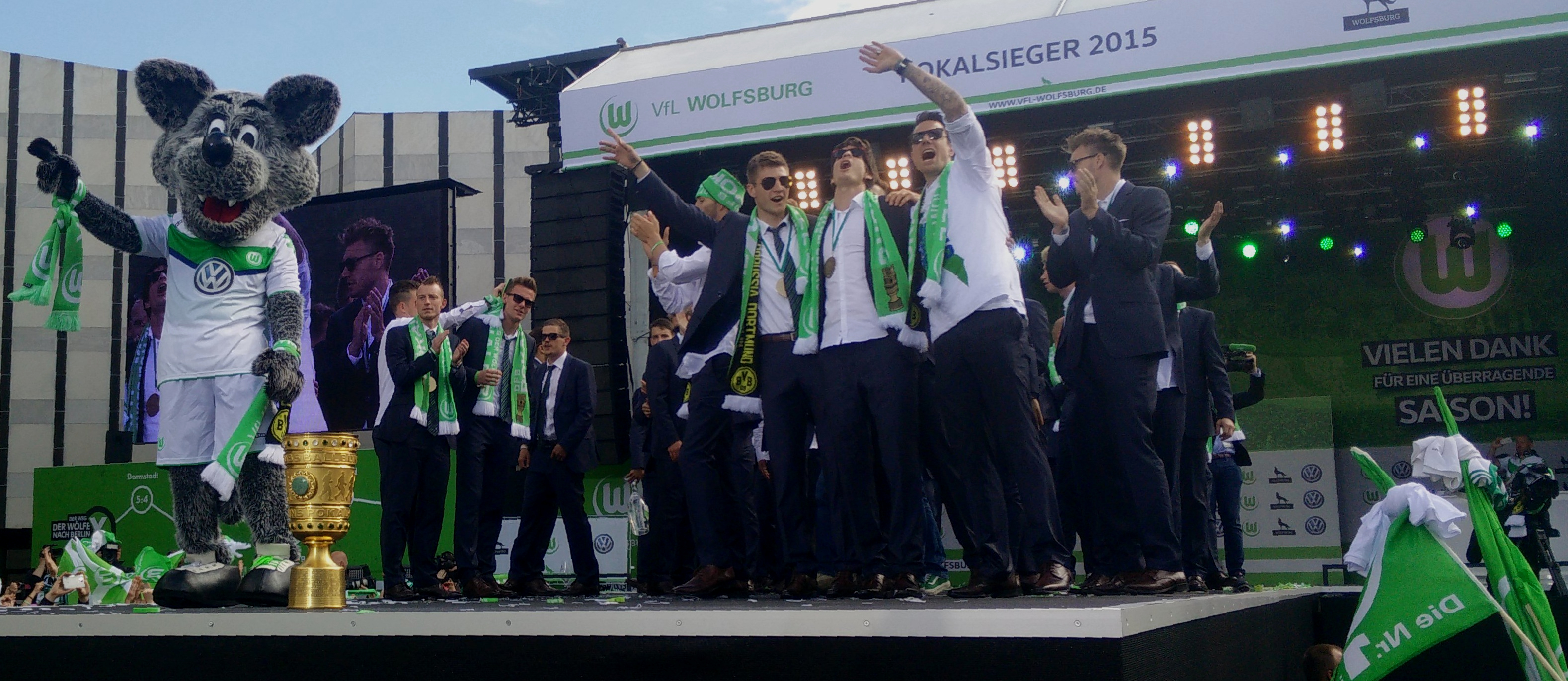 Players of VfL Wolfsburg at Pokalhelden-Empfang in Wolfsburg.